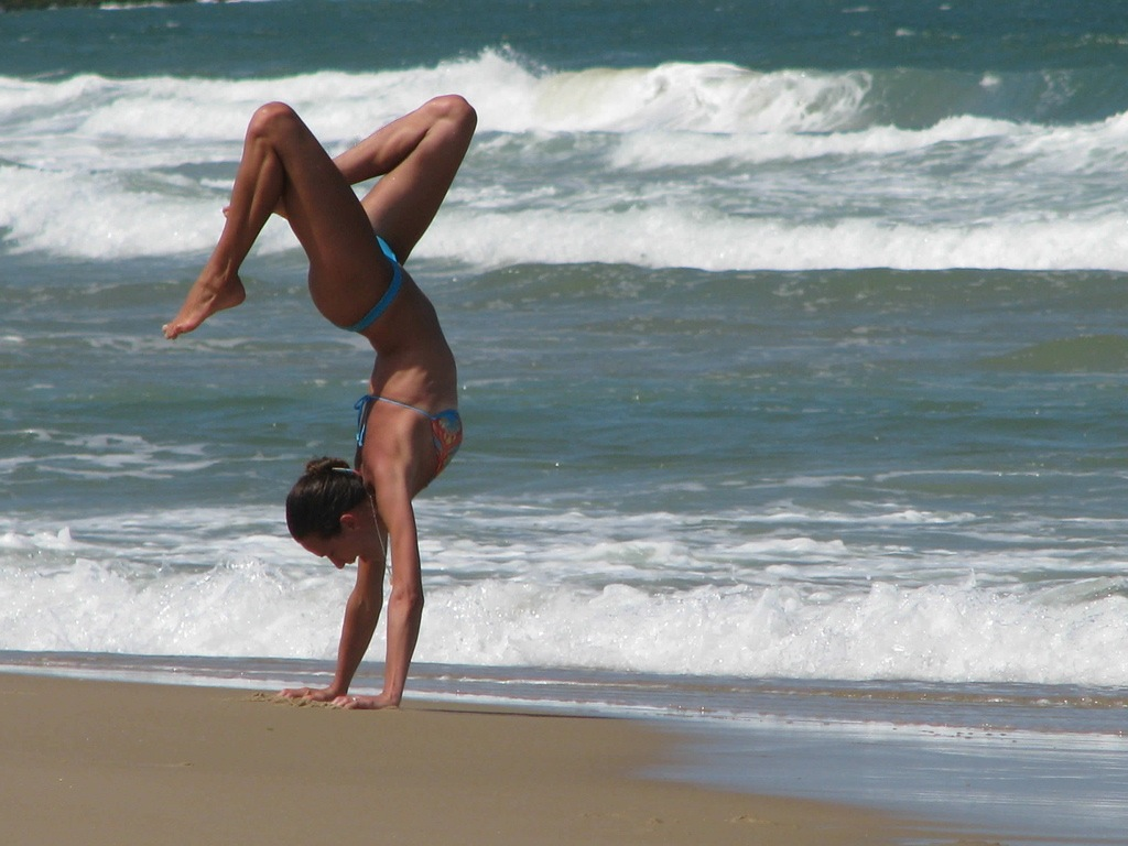 Woman makes a handstand on the beach, at Santa Catarina's coast.